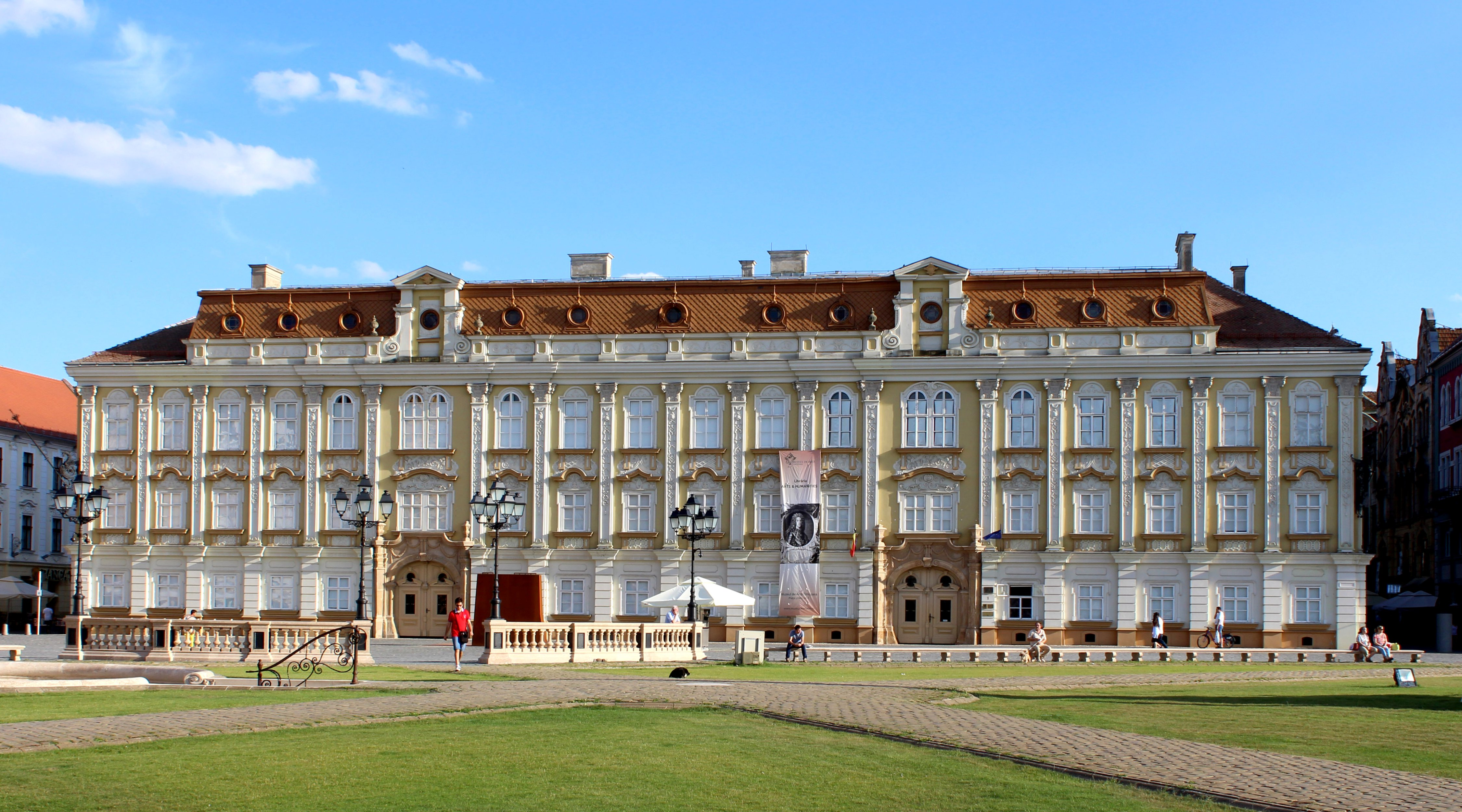 Baroque Palace, Union Square, Timișoara, Romania